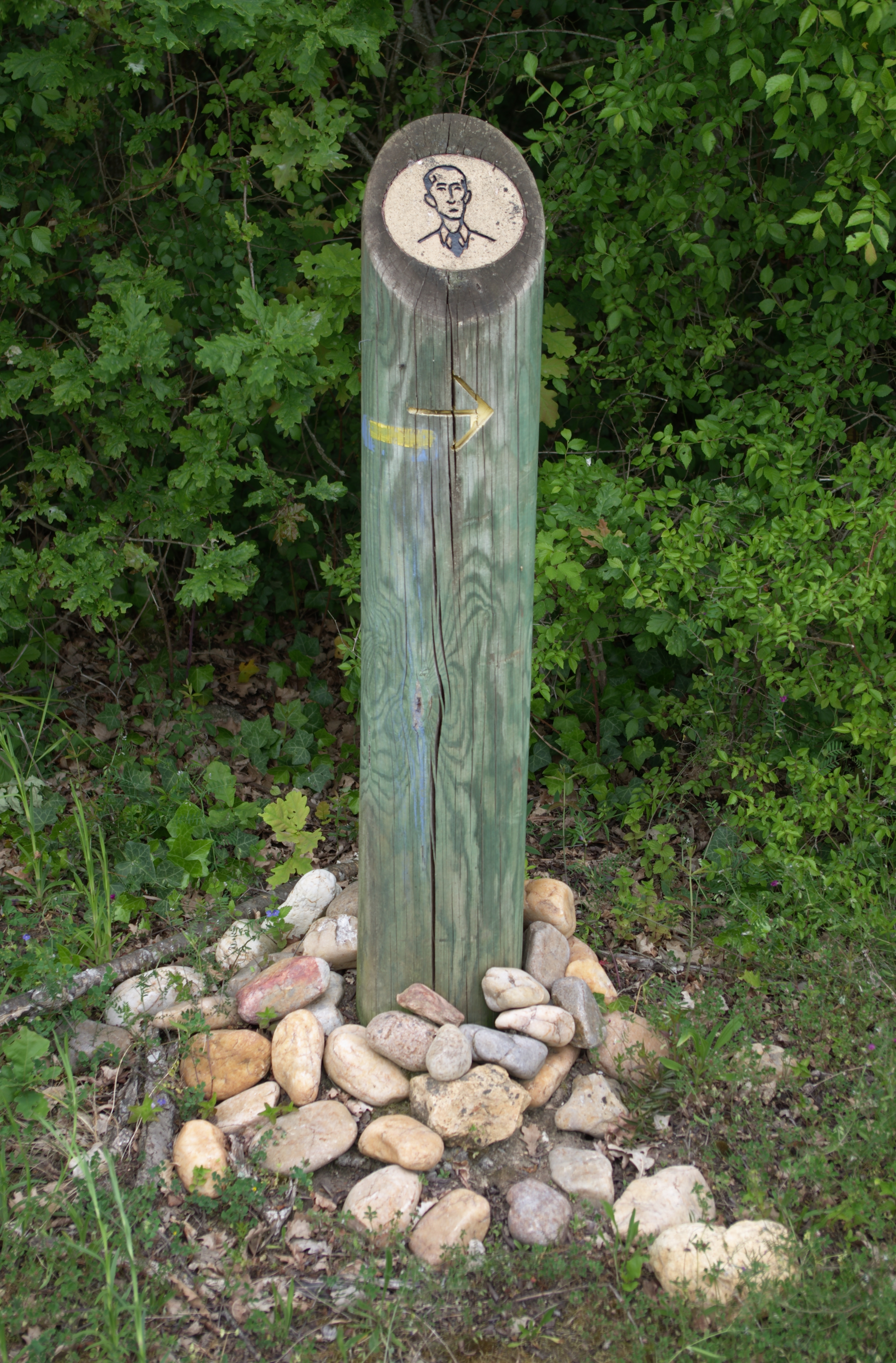 Signpost along a footpath concerning Pierre Véry's books and life, near Bellon, Charente, France